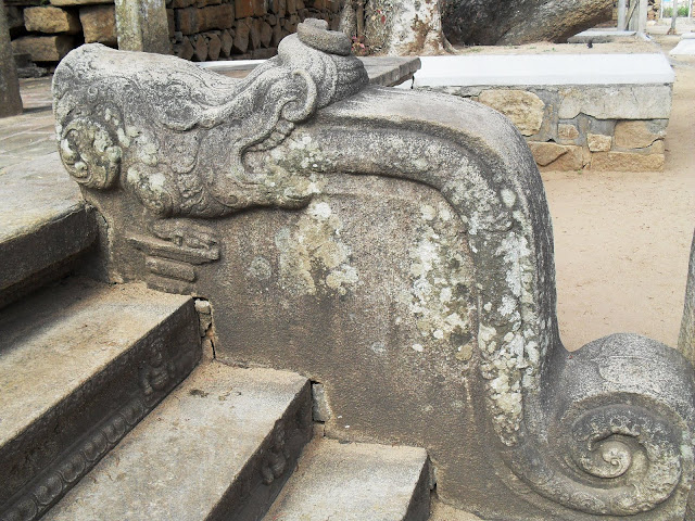 This Dragon Balustrade can be seen inside of the entrance to Jaya Sri Maha Bodhi in Anuradhapura.